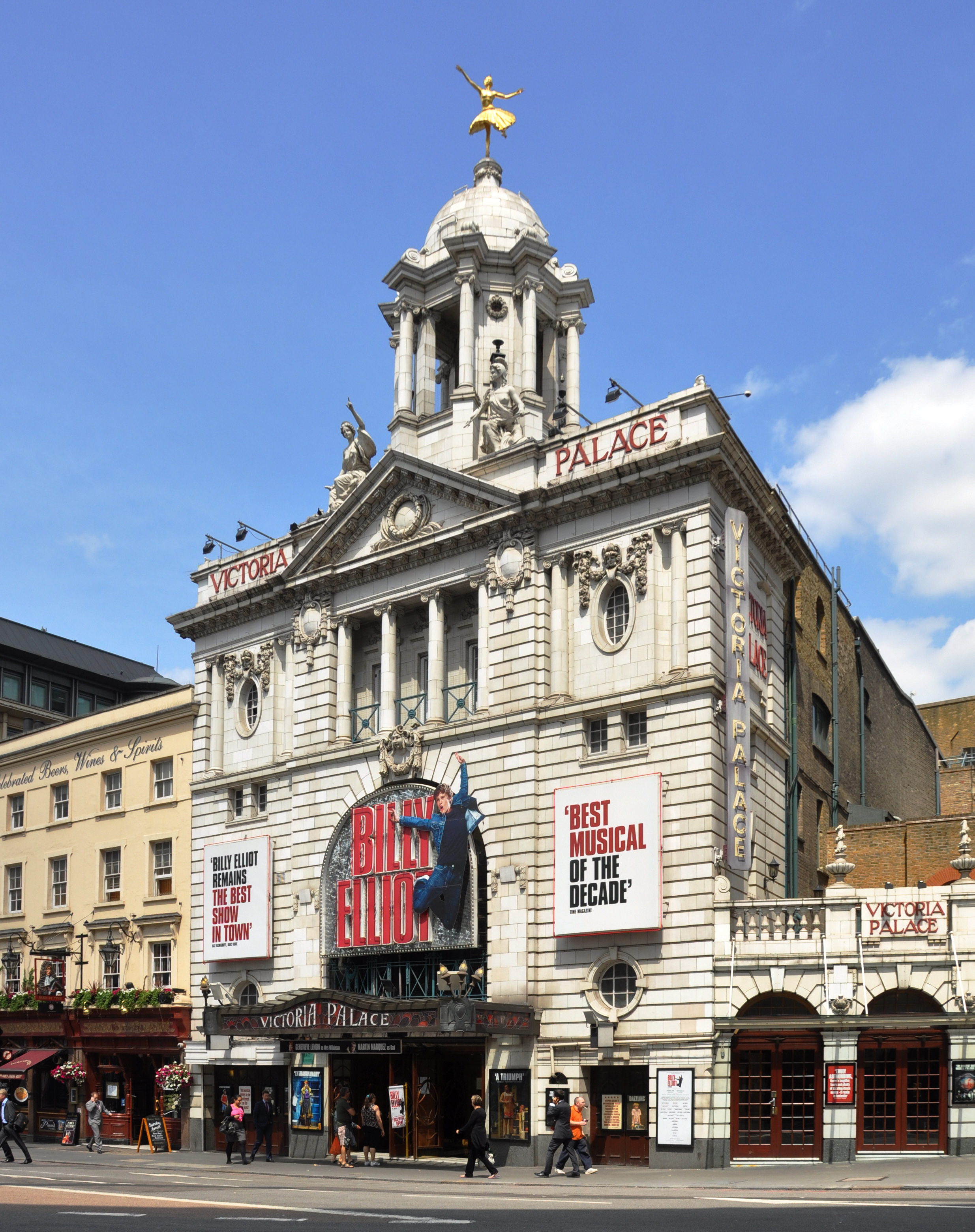 London, Victoria Palace Theatre, showing the musical "Billy Elliot"